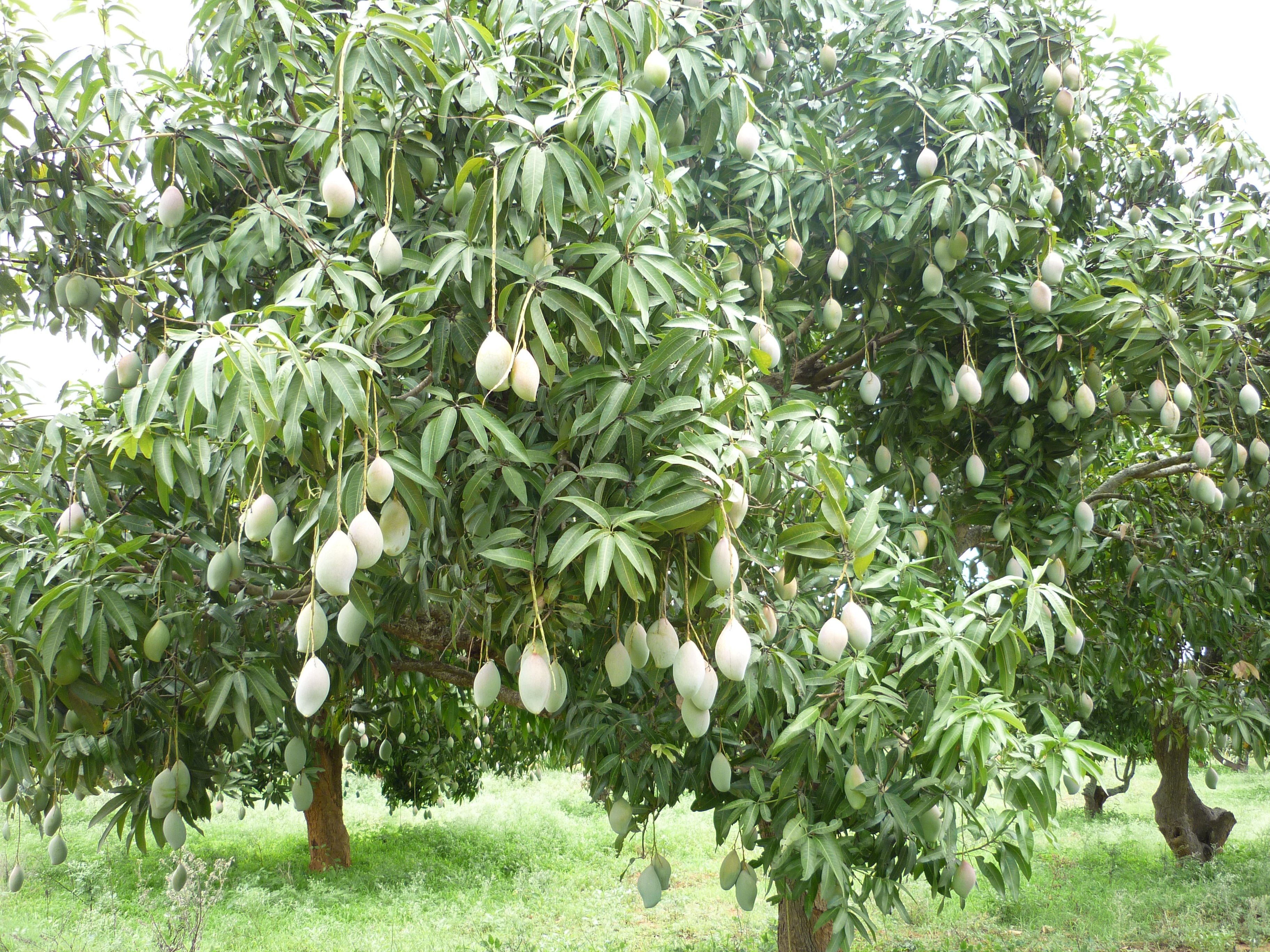 Thottapuri Manago in Kolar, Karnataka